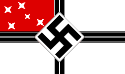 Flag of the Reichskolonialbund